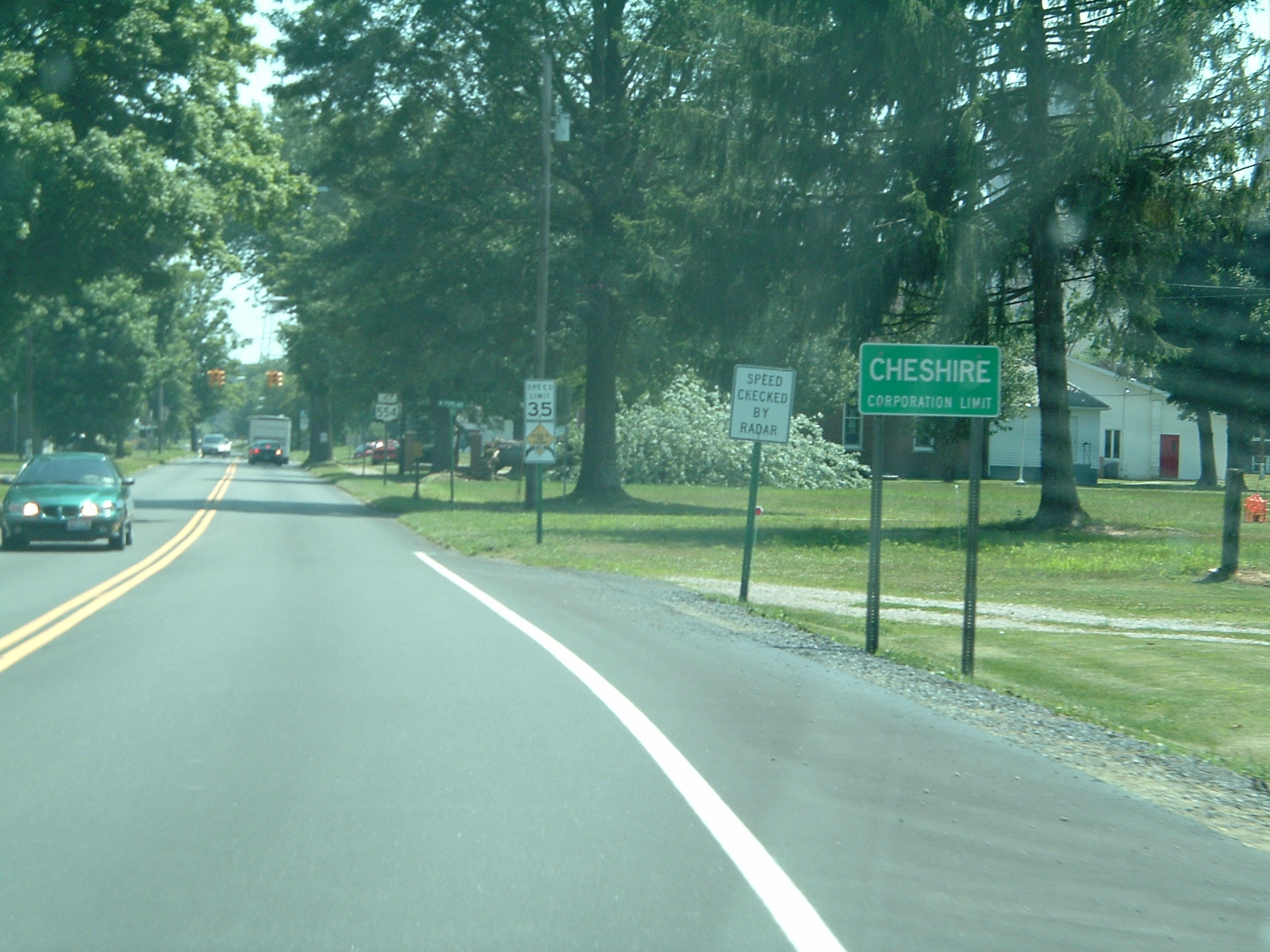 Cheshire, Ohio (Gallia County) in 2004. Self made photo.